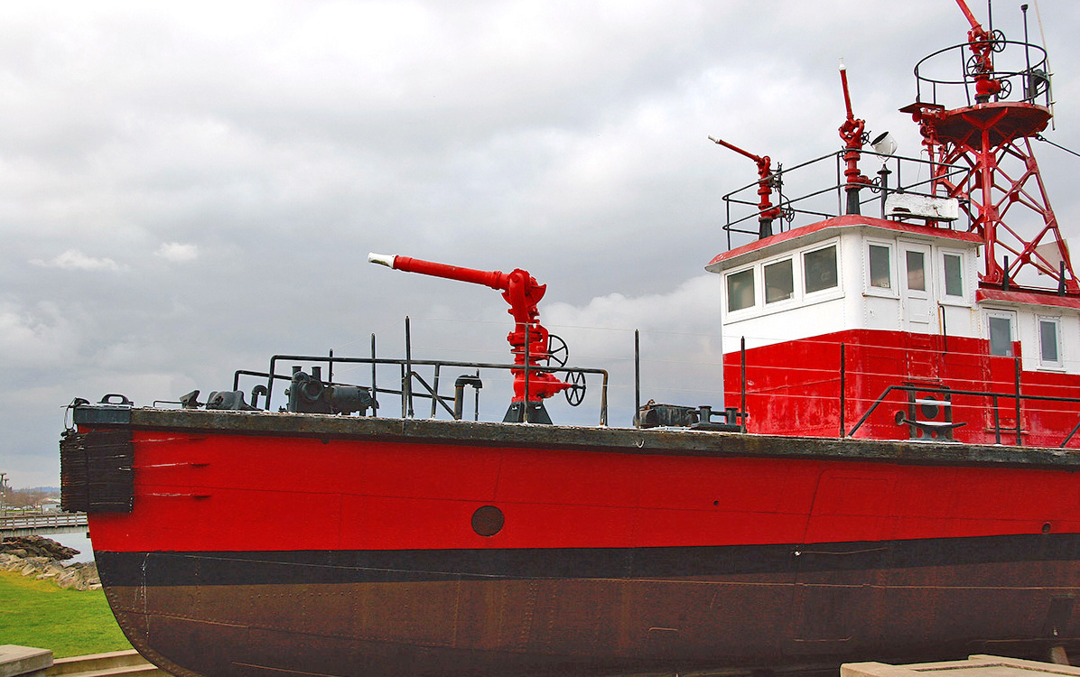 Fireboat Nr. 1 dry-docked , Ruston Way waterfront, Tacoma